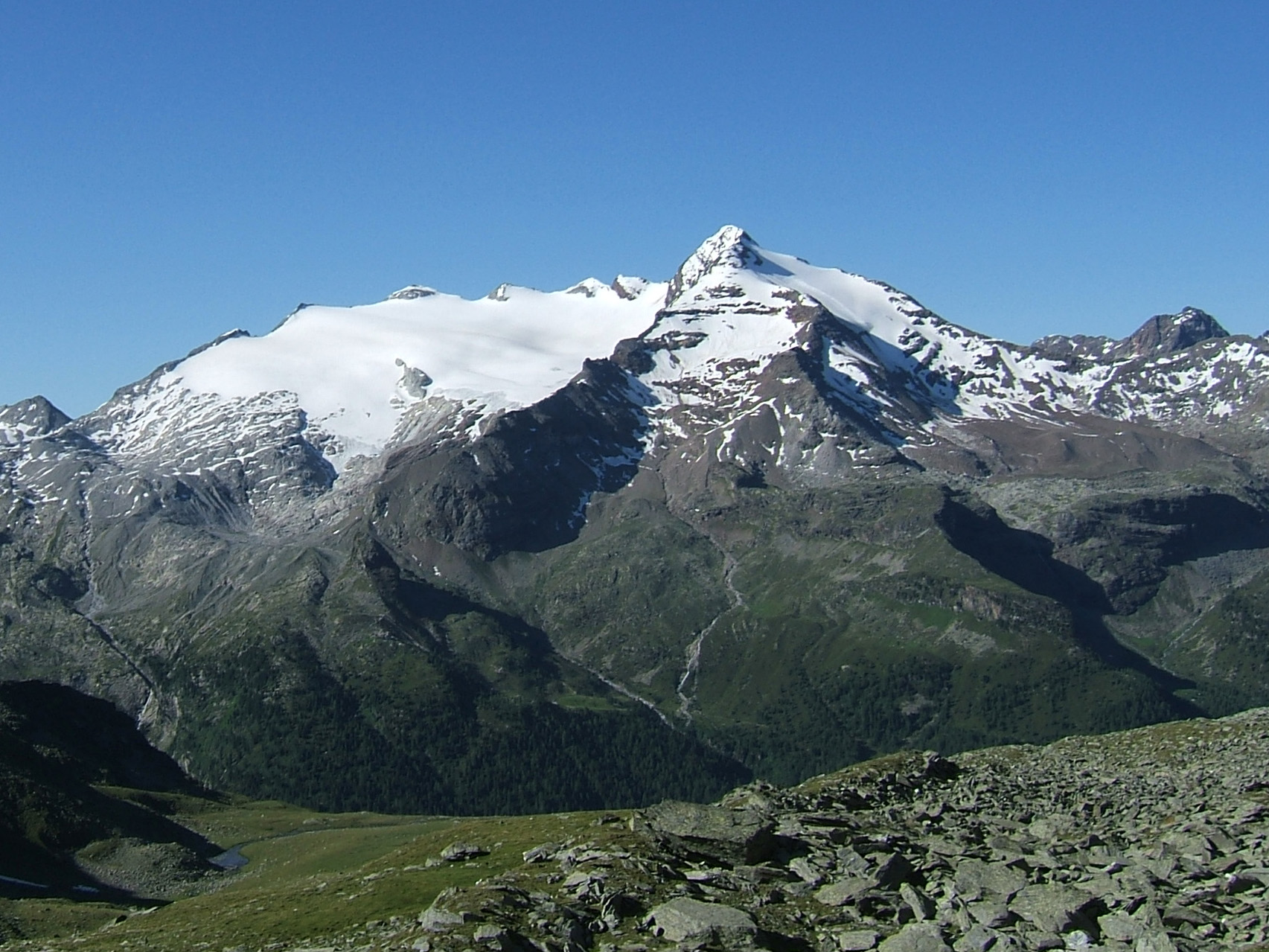 Schneebiger Nock from north, from P2591 near Stutennockl/Kofler Seen